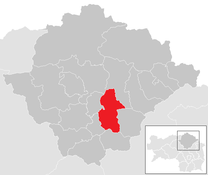 district Bruck-Mürzzuschlag